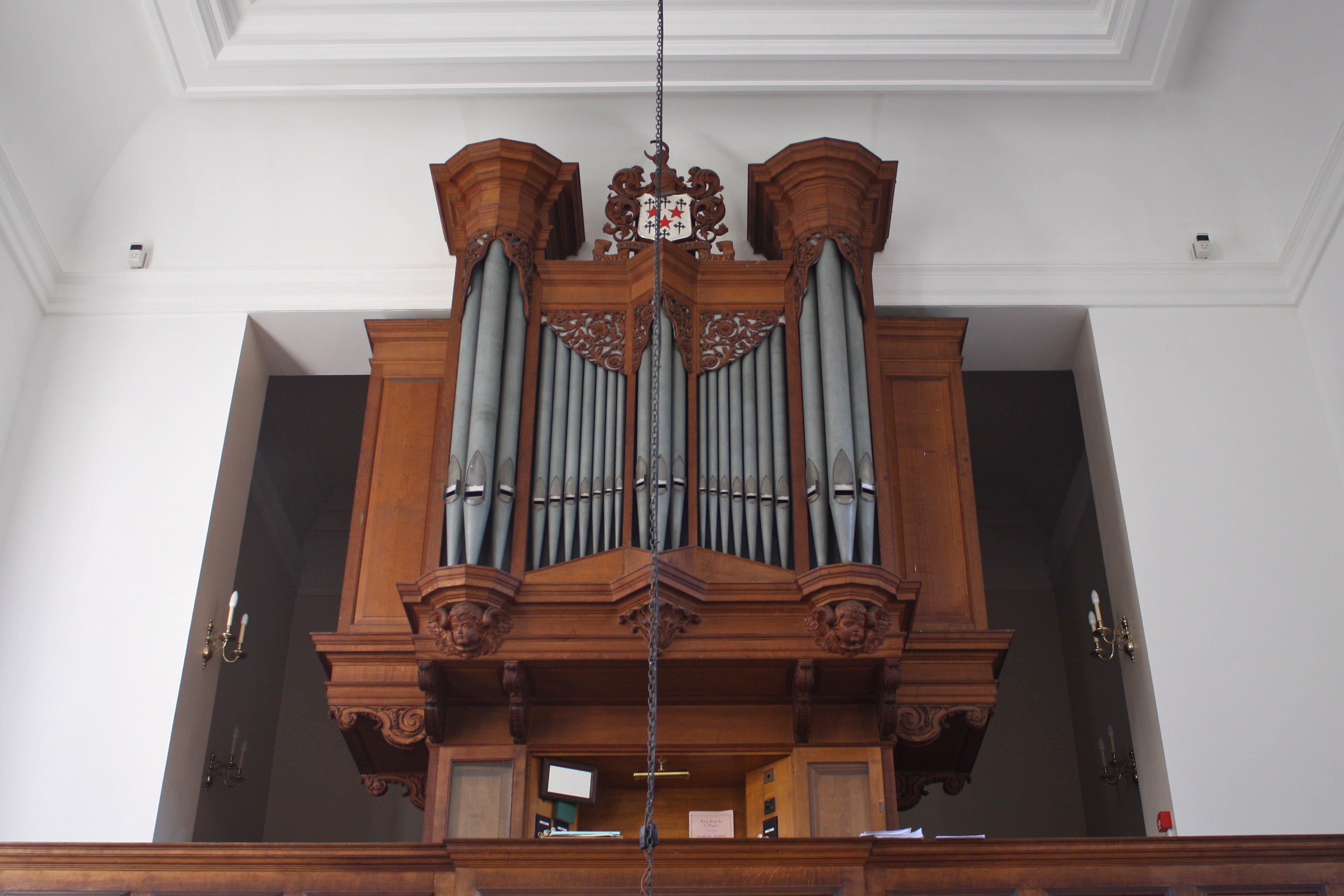 1937 Harrison & Harrison organ at Somerville College Chapel, Oxford